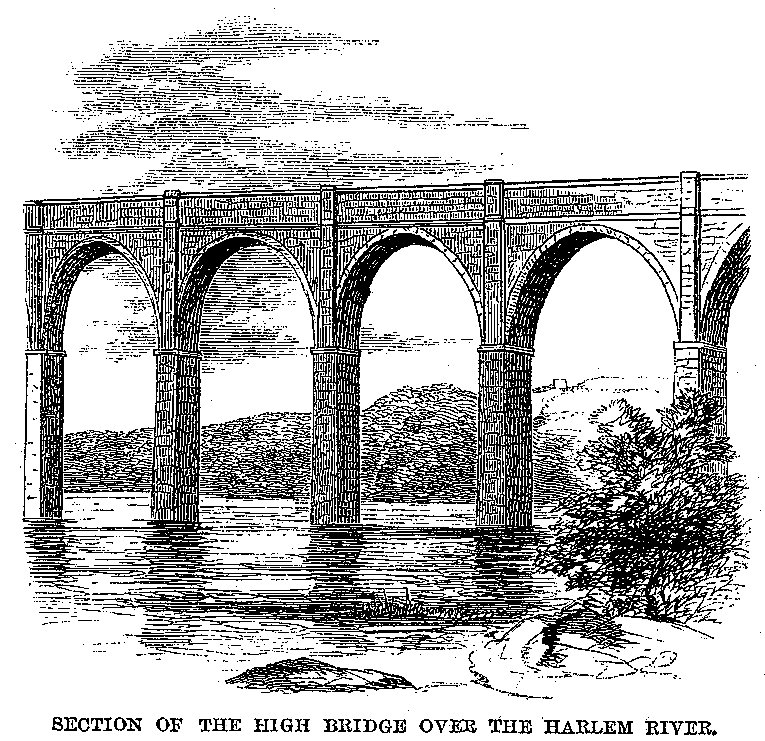 "Section of the high bridge over the Harlem River."